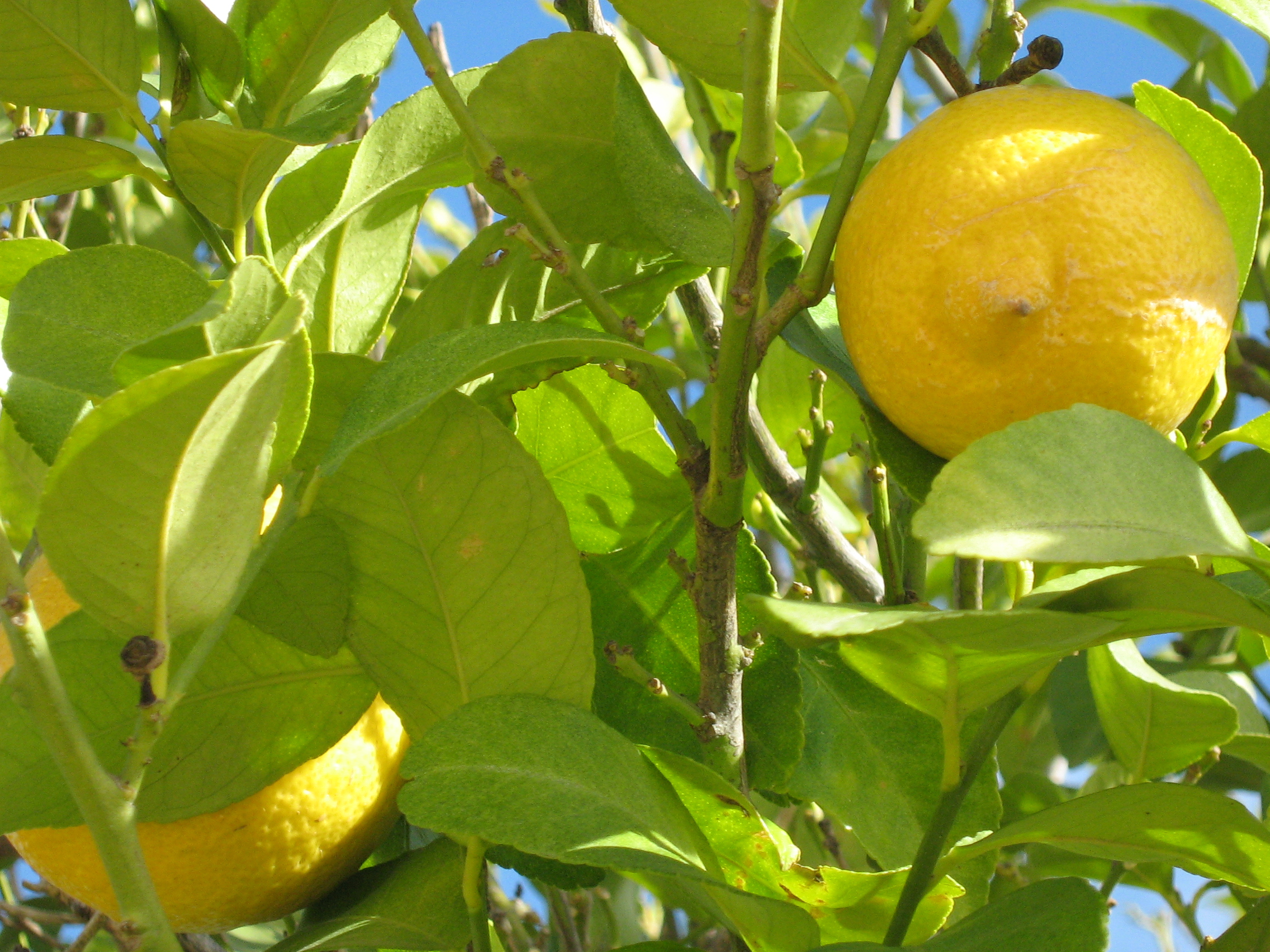 Lemon, Citrus x limon, in Libya.